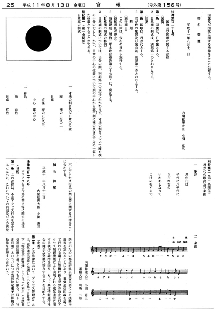 The appendix page of the Japanese Act on National Flag and Anthem